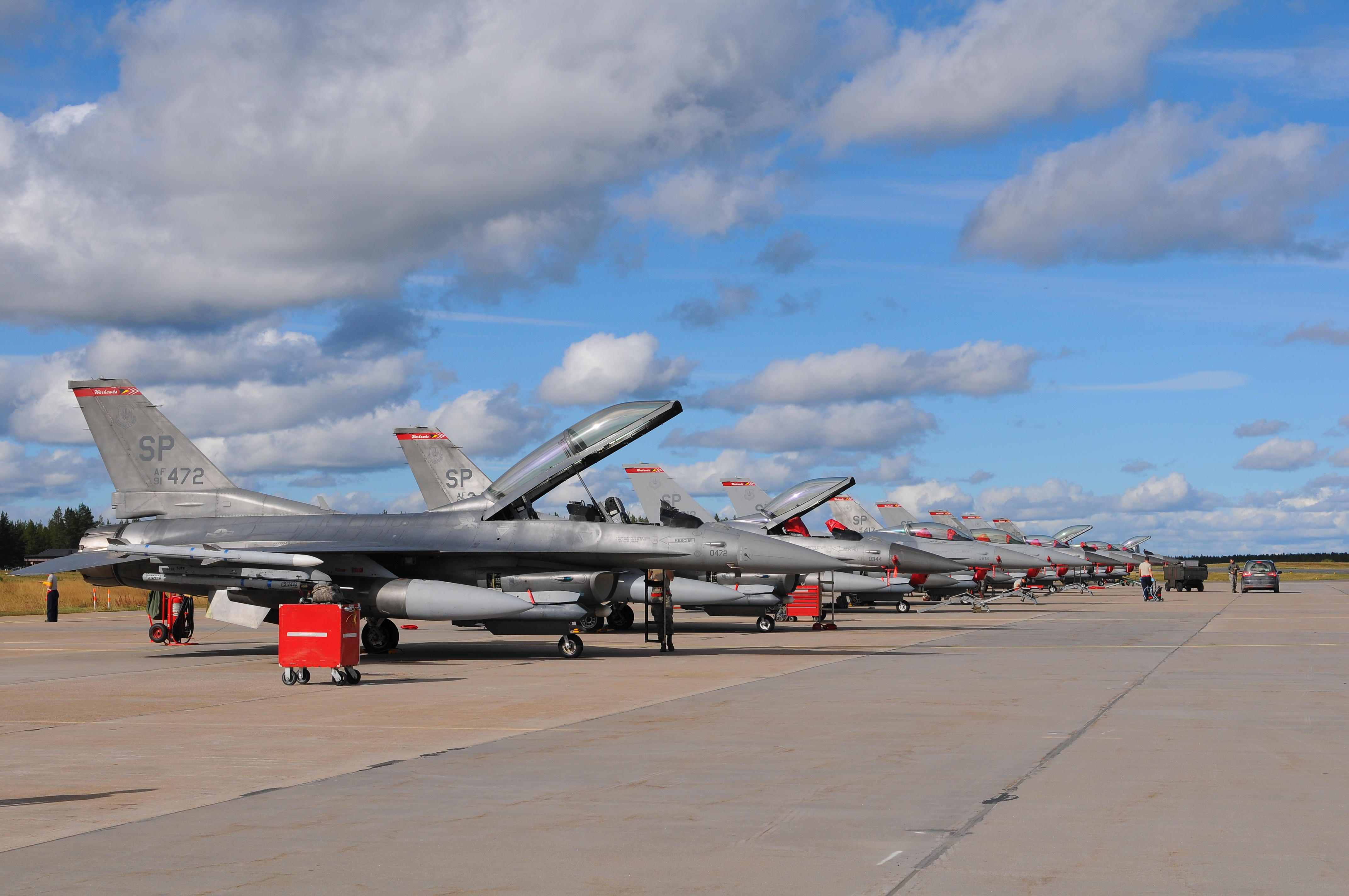 U.S. Air Force F-16 Fighting Falcon aircraft with the 480th Fighter Squadron are prepared to participate in Nordic Air Meet (NOAM) 12 at an airfield in Finland Sept. 3, 2012. NOAM 12 was a multinational aerial training exercise designed to share new combat tactics with allied countries. Participants included the U.S. Air Force and military forces from Sweden, Finland, Switzerland, Denmark and the United Kingdom.